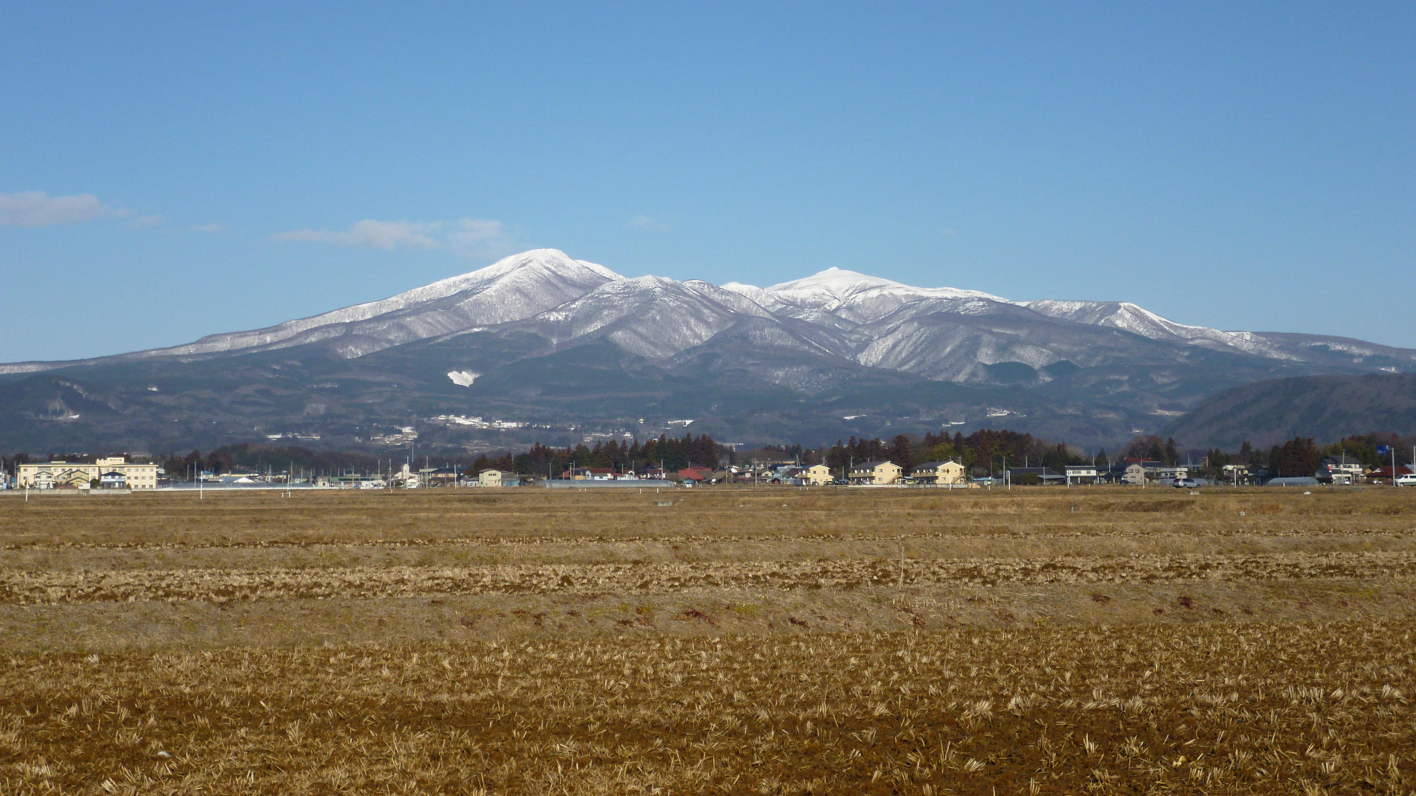 Mount Adatara seen from the southeast, in Fukushima Prefecture, Japan.